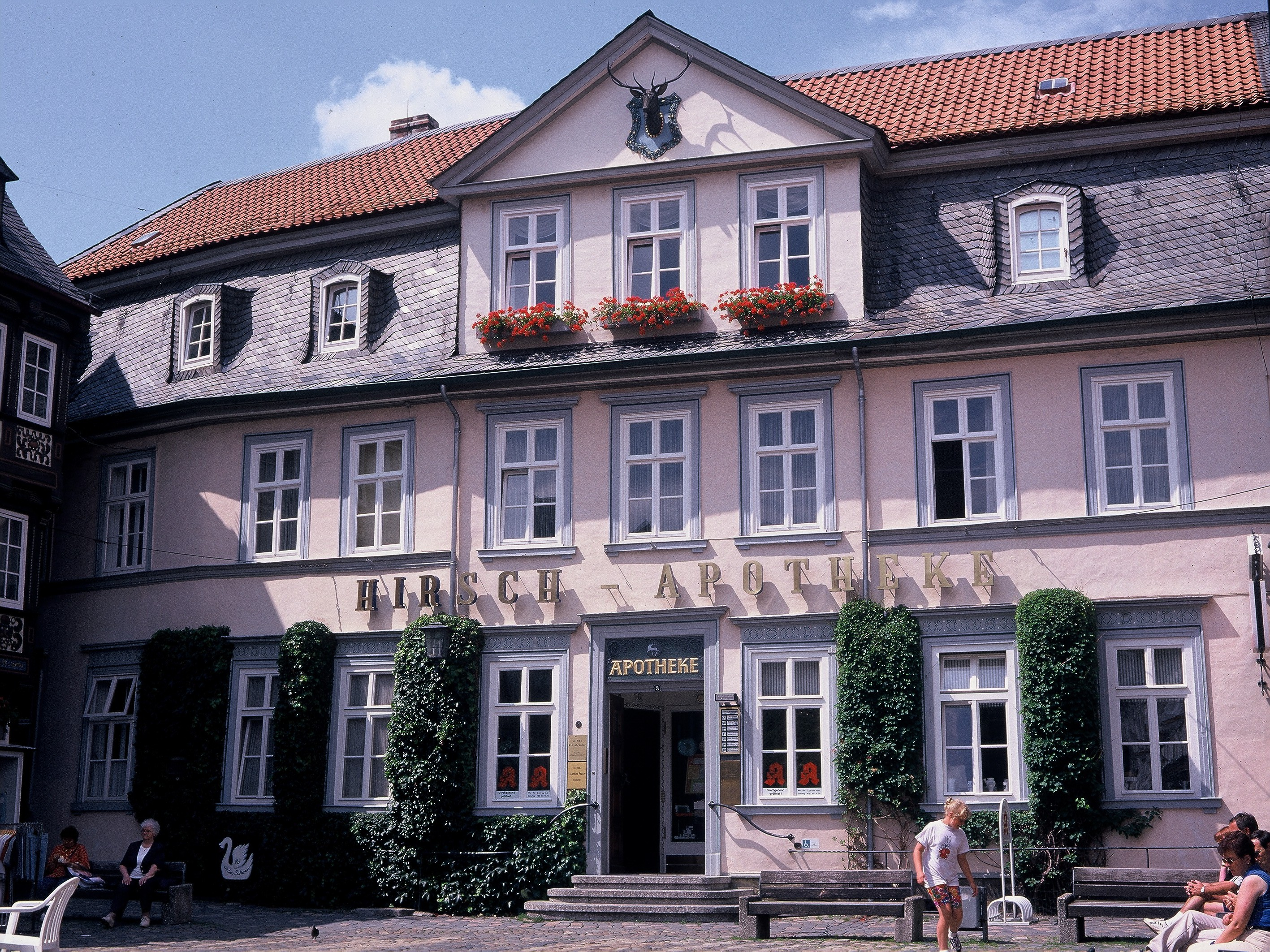 Hirsch-Apotheke, Goslar, Lower Saxony, Germany